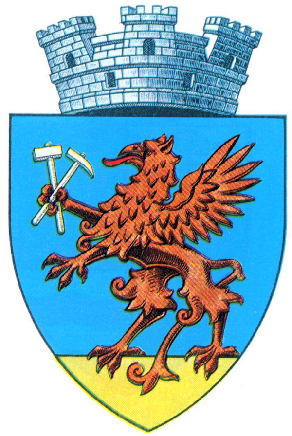 Interwar coat of arms of Abrud, Alba County, Kingdom of Romania.